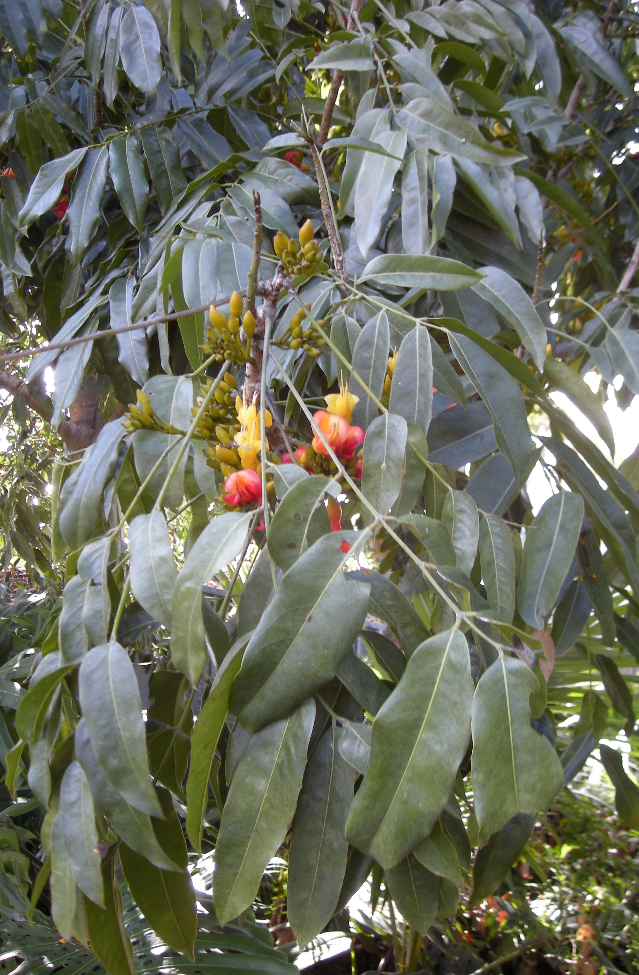 Castanospermum australe flowers and foliage